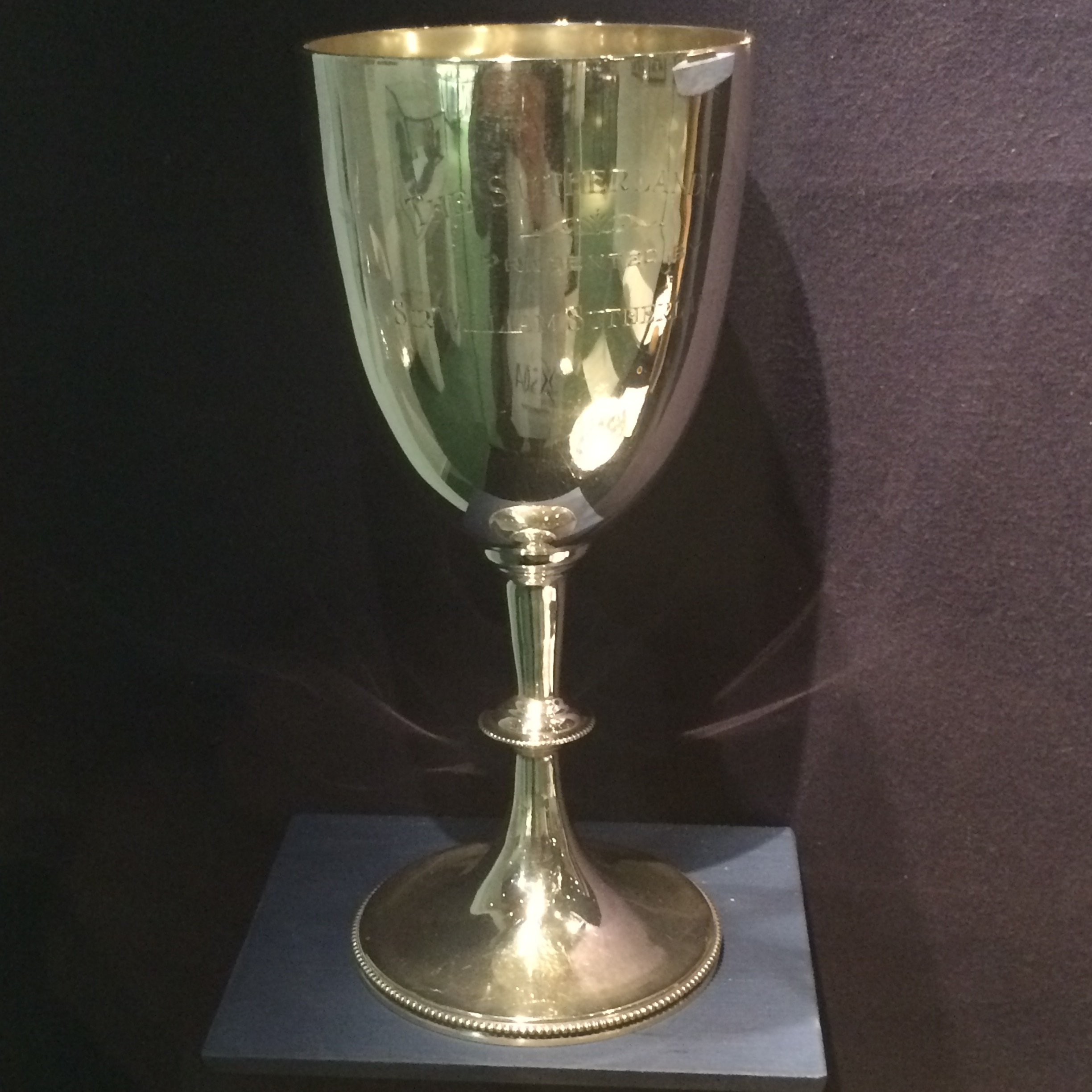 The Original Sutherland Cup for Shinty - not to be confused with the Sir William Sutherland Cup (although this trophy was donated by the man of that name as well)